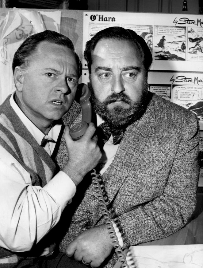 Photo of Sebastian Cabot with guest star Mickey Rooney from the television program Checkmate.